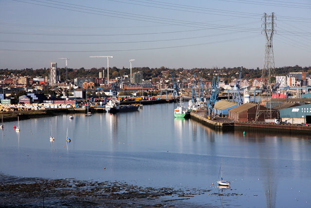 Ipswich Docks from the Orwell Bridge The tidal quays at the port of Ipswich include Cliff Quay to the right and the West Bank Terminal to the left. The approach channel in the River Orwell is dredged to 5½ metres at low water.